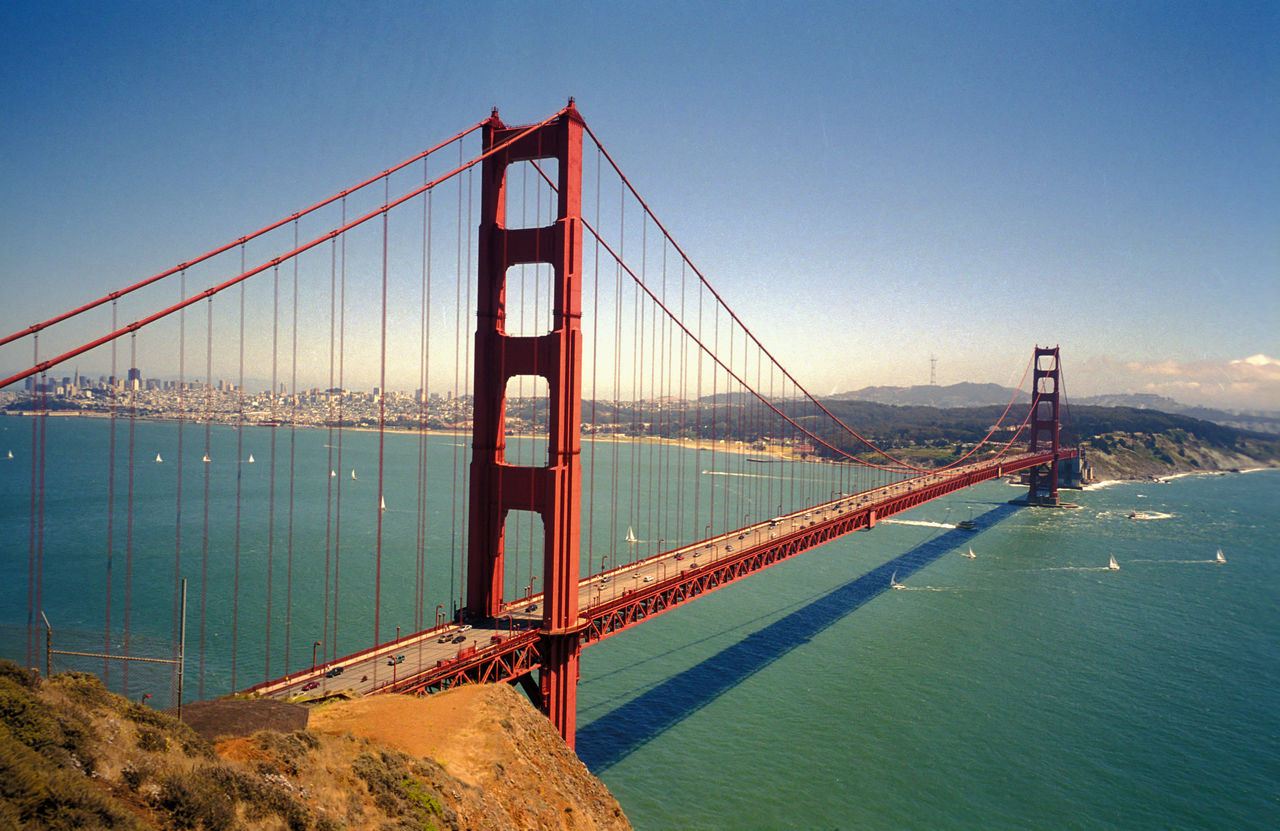 like many other pictures of the golden gategolden gate